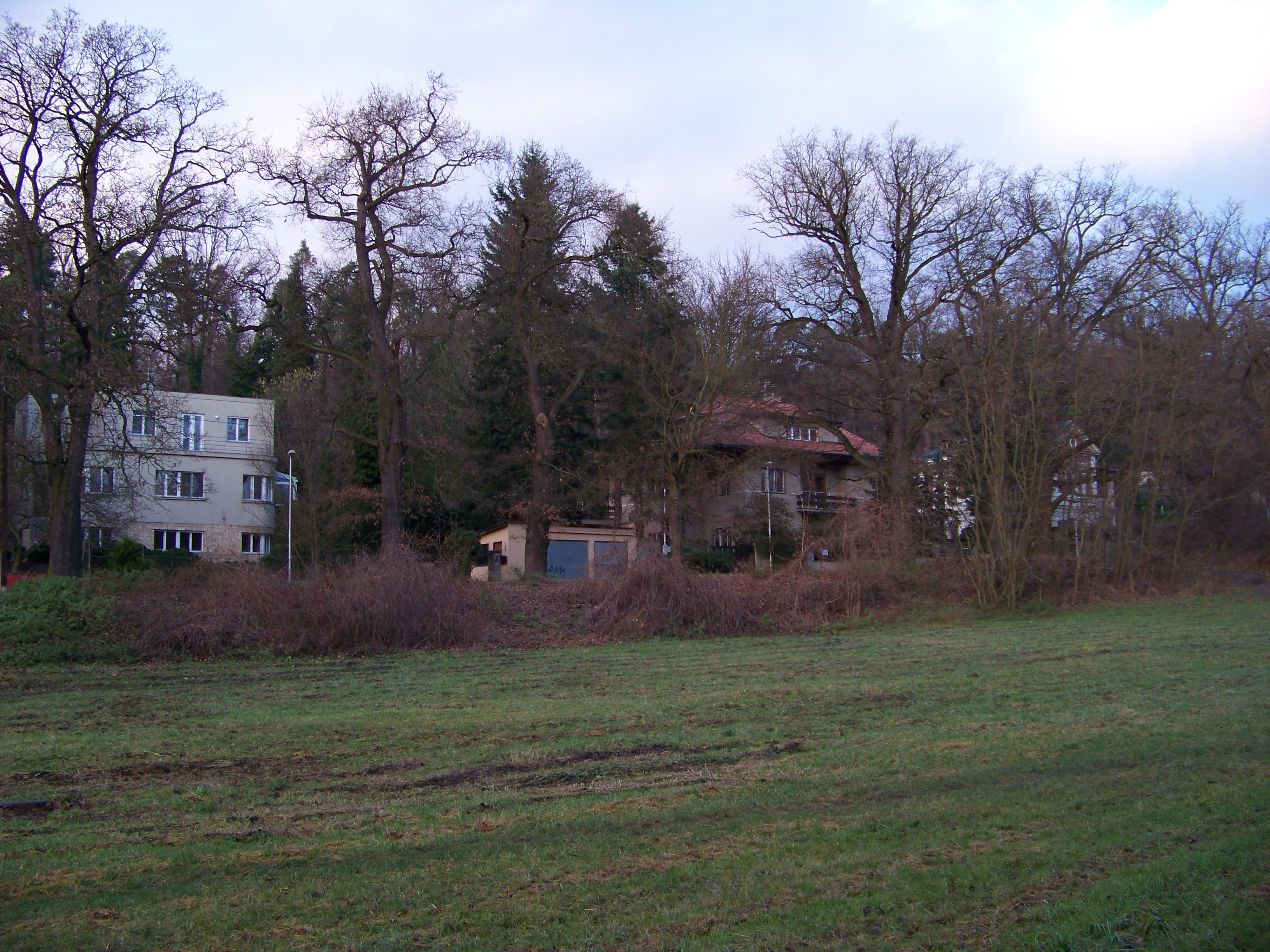 Prague-Hodkovičky and Kamýk, the Czech Republic. Zátiší, V lučinách street, a memorable avenue.